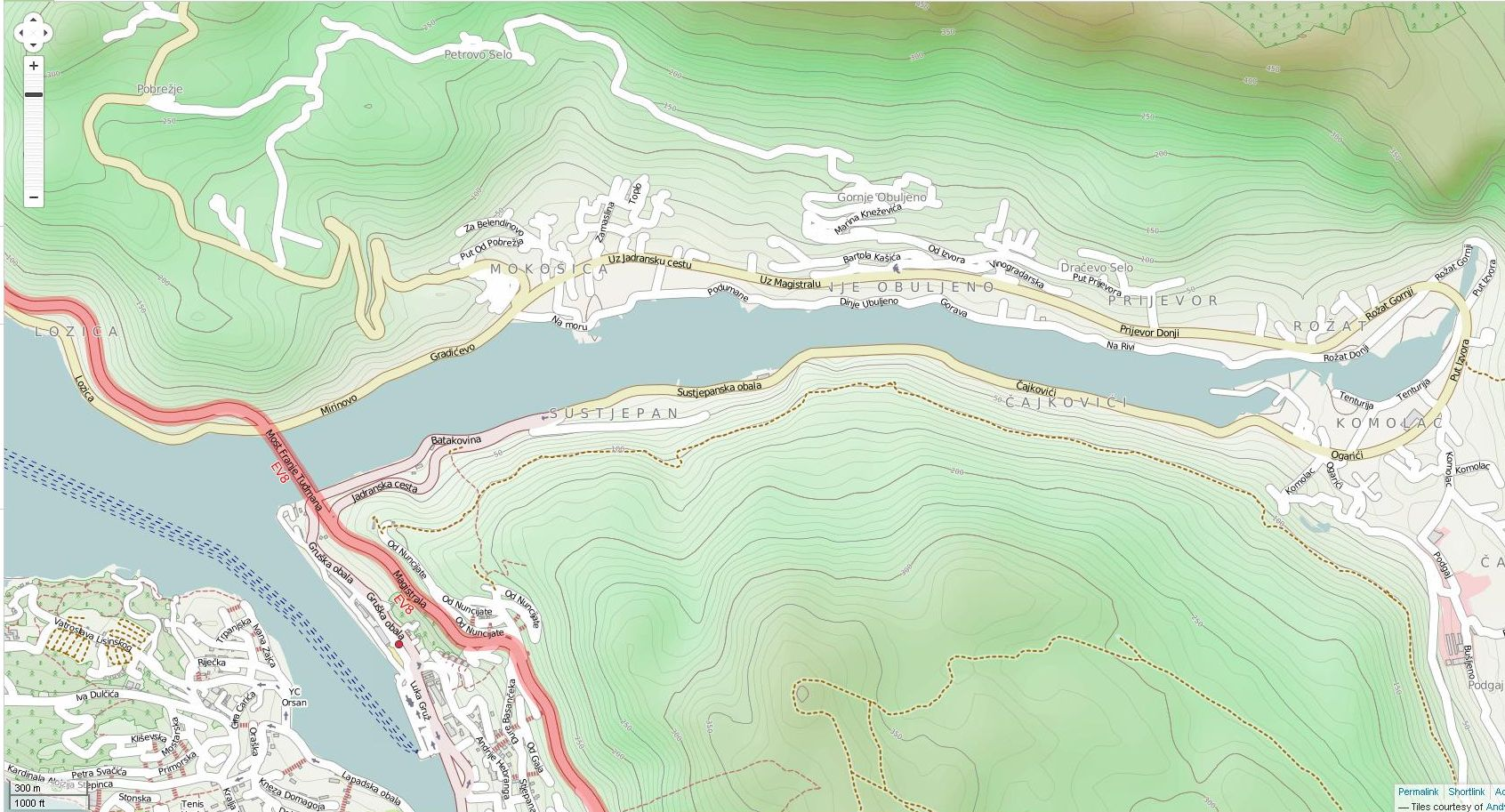 OpenStreetMap map of Rijeka Dubrovačka